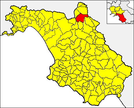 Locator map of the municipality of Colliano (red) within the Province of Salerno